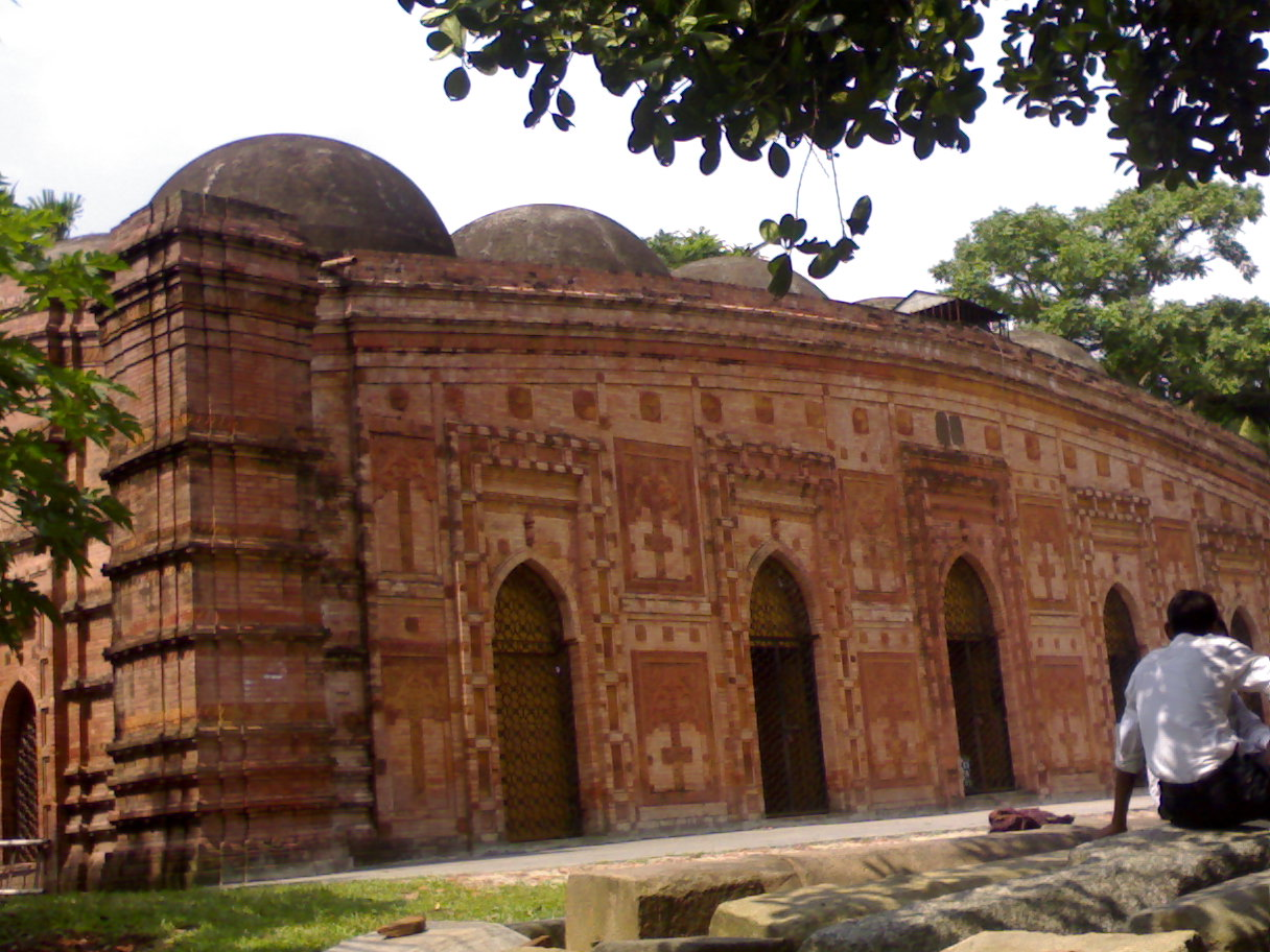 From front left side view